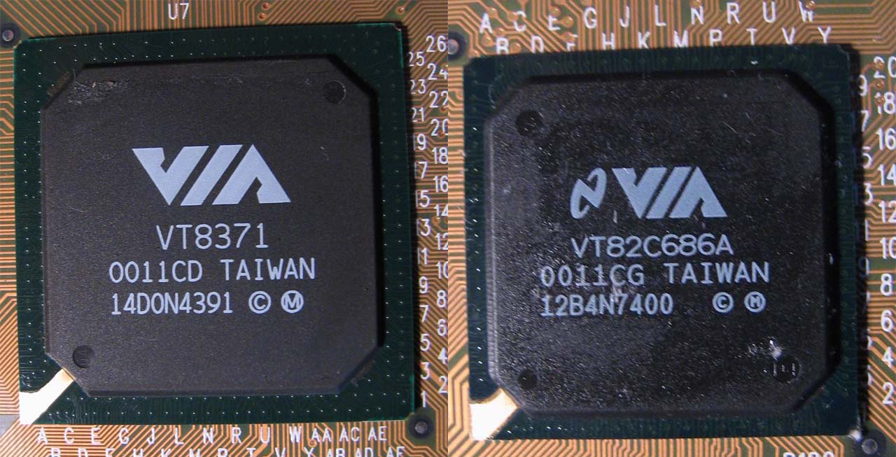 Chipset VIA KX133 for AMD Athlon (Slot A): North bridge VT8371 and South bridge VT82C686A